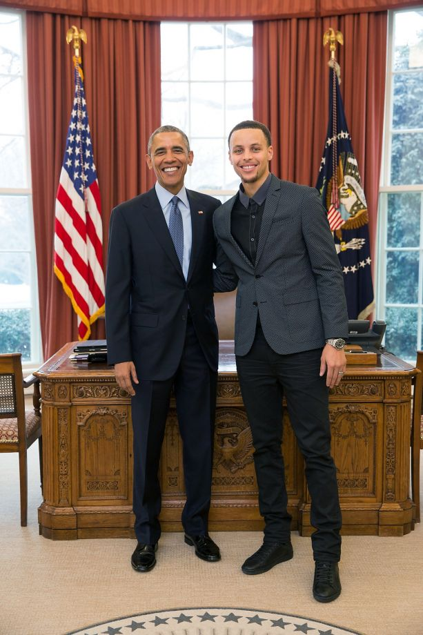 President Barack Obama with basketball player Stephen Curry